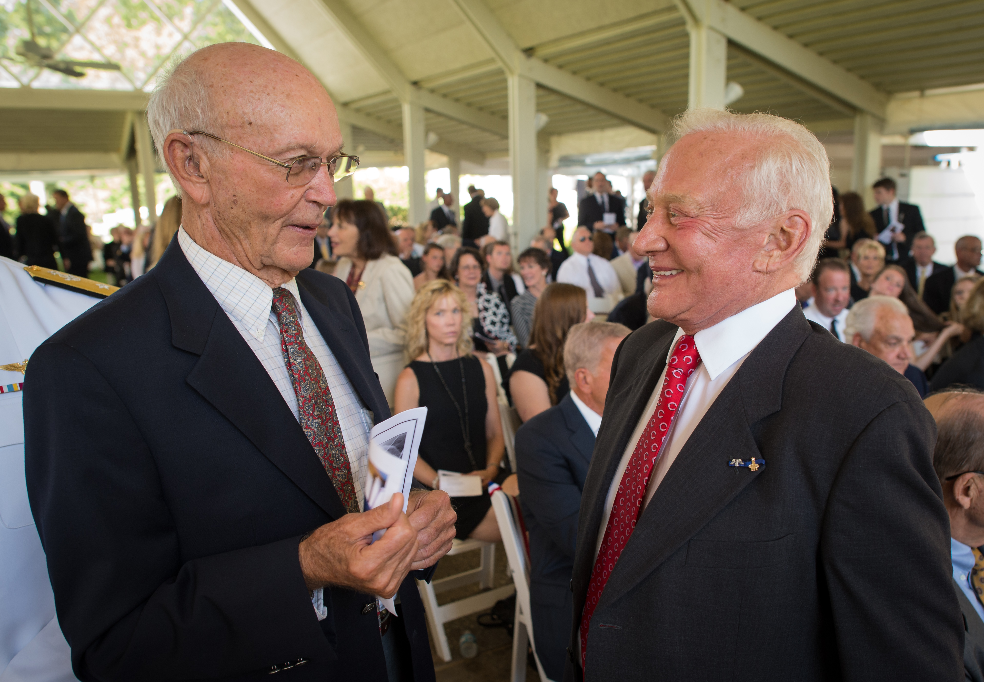 Apollo 11 astronauts Michael Collins, left, and Buzz Aldrin talk at a private memorial service celebrating the life of Neil Armstrong, on 31 August 2012, at the Camargo Club in Indian Hill near Cincinnati. Armstrong, the first man to walk on the moon during the 1969 Apollo 11 mission, died on Saturday, 25 August. He was 82.